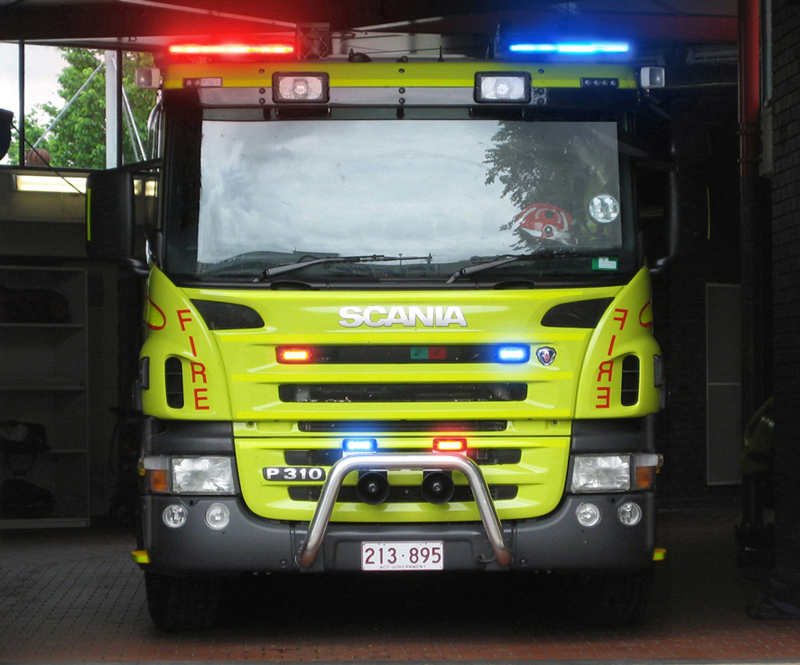 ACT Fire Brigade Heavy Rescue Pumper, Scania P310 in Canberra Australia.